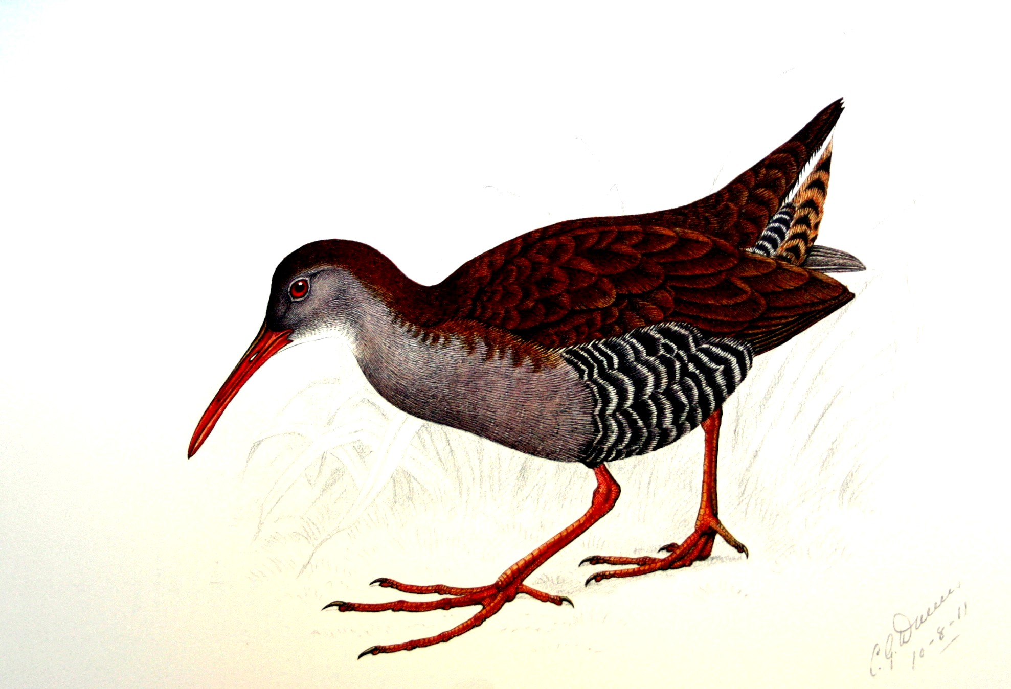 African Rail (Rallus caerulescens)